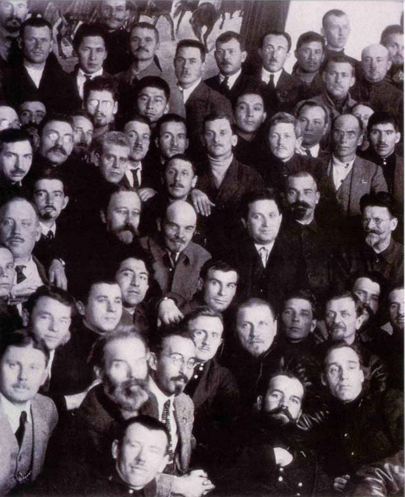 Vladimir Lenin, Grigory Zinoviev, Lev Kamenev and Andrey Vyshinsky during the session of All-Russian Central Executive Committee, October 31, 1922